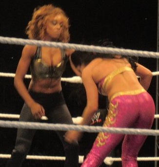 Melina and Alicia Fox in a WWE Diva's Championship match at a Puerto Rico WWE World Tour.